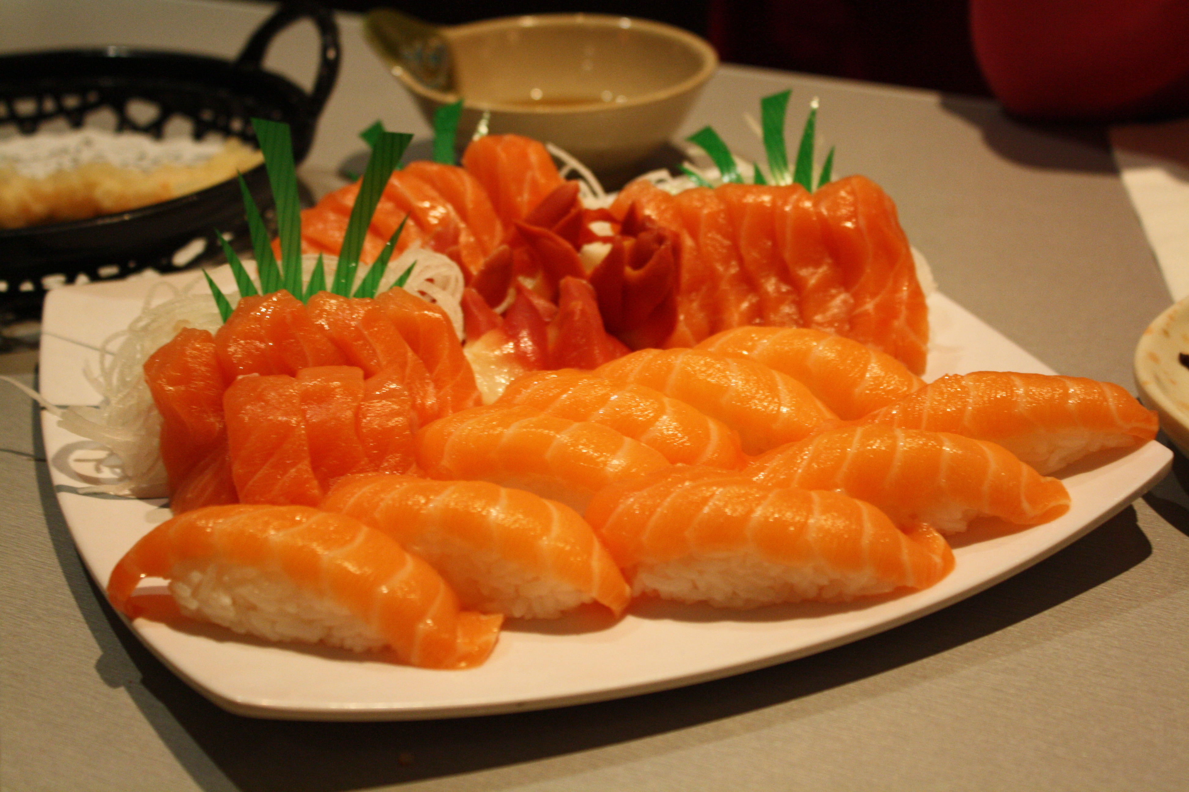 Salmon Sushi and Sashimi Platter